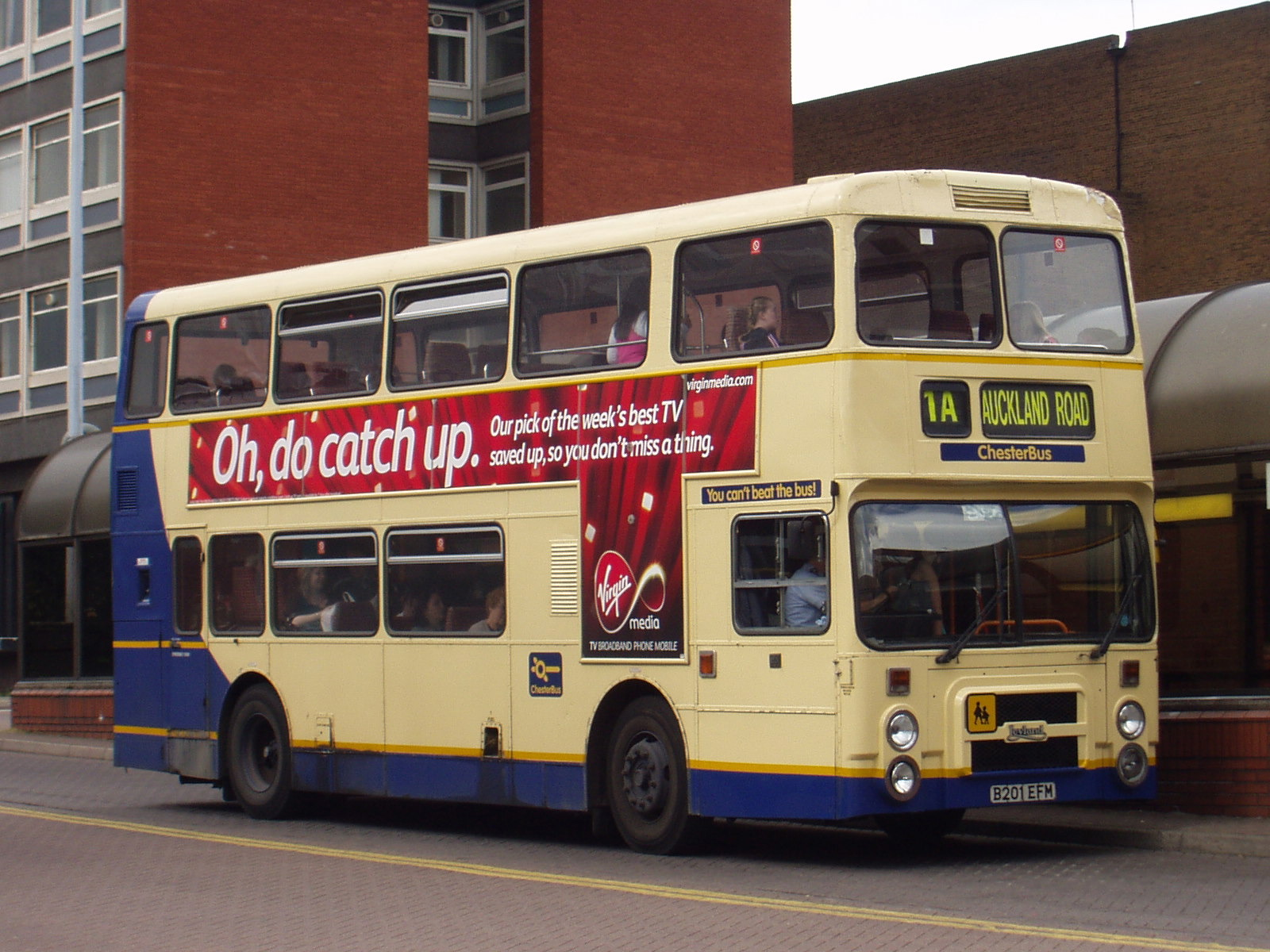 ChesterBus Leyland Olympian with Northern Counties bodywork, No. 1 B201 EFM pictured in Chester Bus Exchange